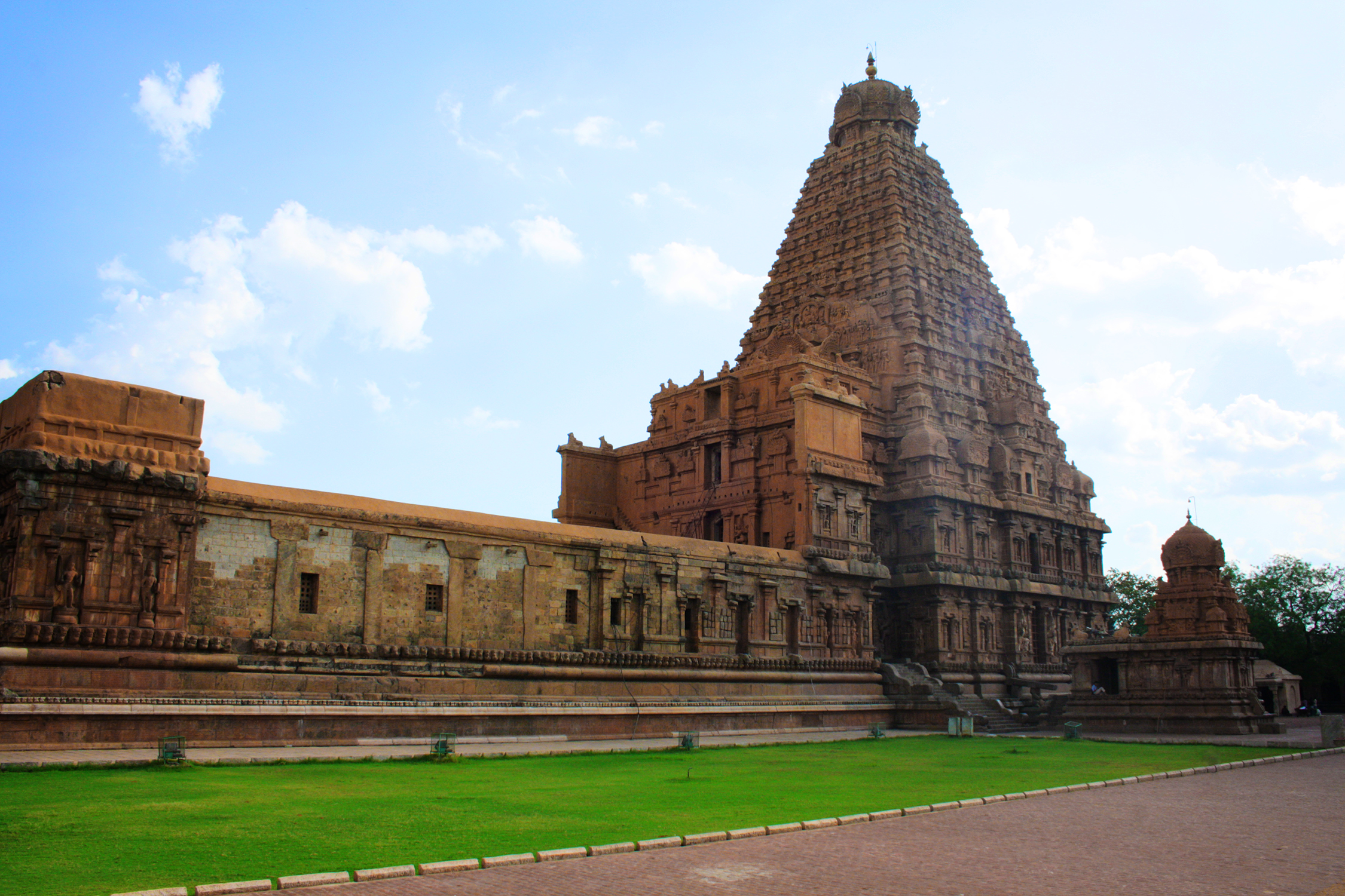 A view of Bragadeeshwara temple situated in Thanjavur(Tanjore) in Tamil Nadu